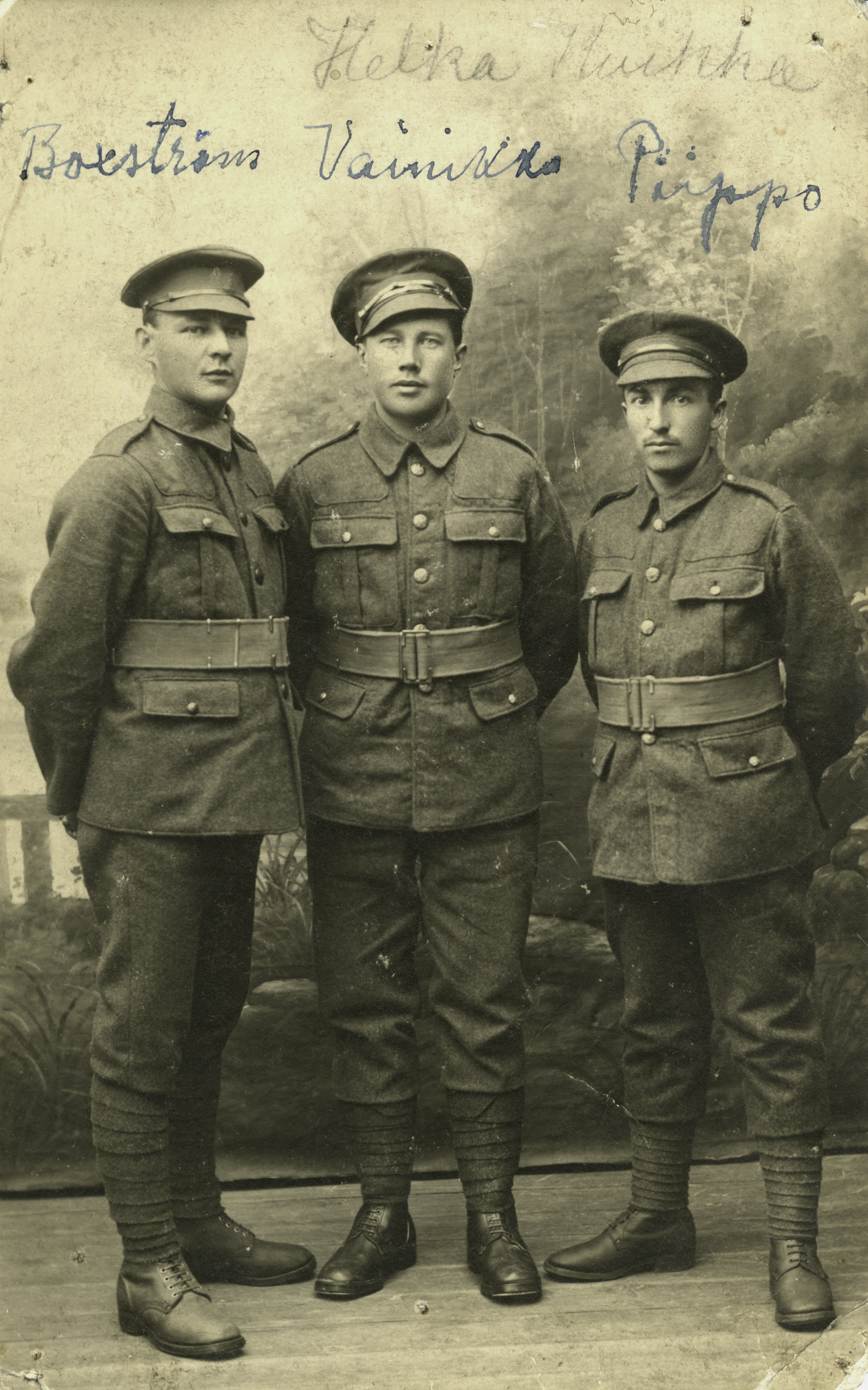 Royal Reds in Murmansk 1918